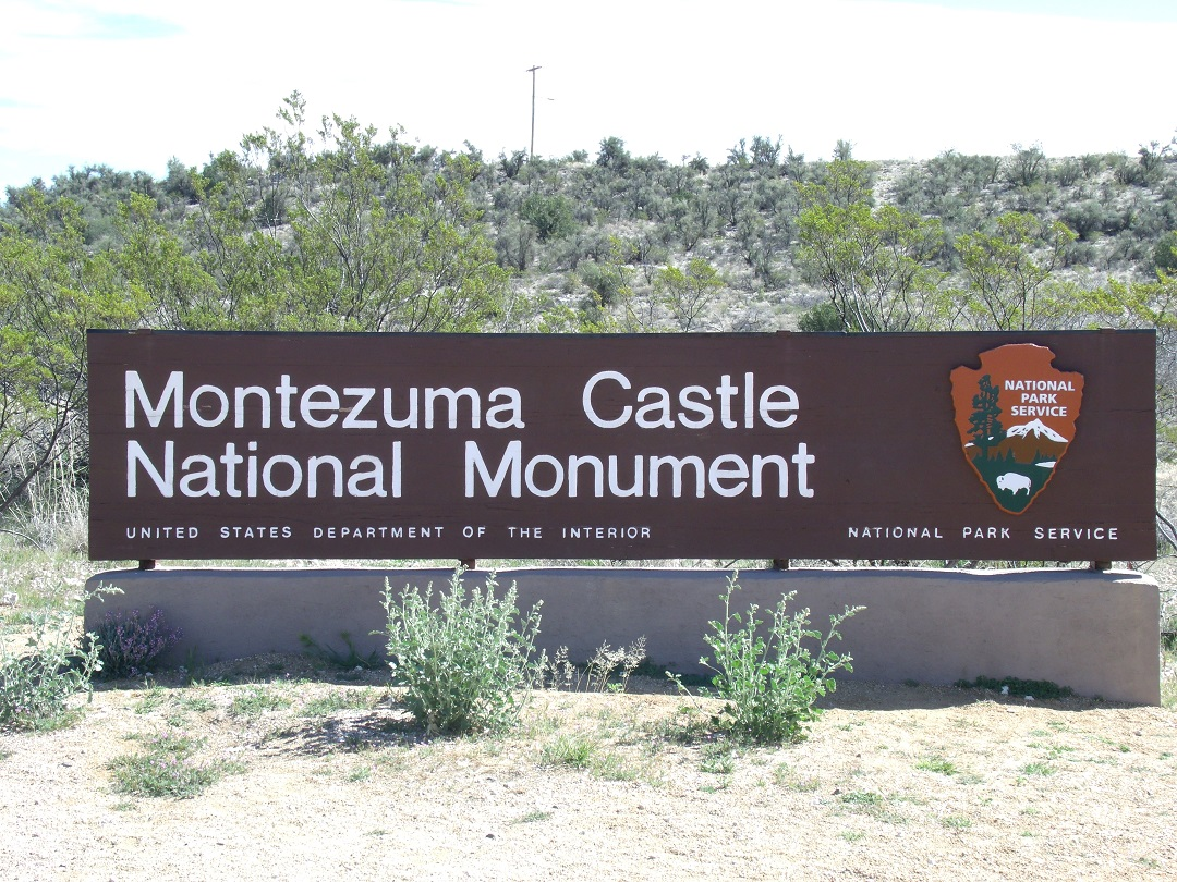 Entrance sign of the Montezuma Castle National Monument, which is located near Camp Verde, Arizona. The sign and its contents are the work of an employee of the Bureau of Land Management, and public domain. Montezuma Castle National Monument is listed in the National Register of Historic Places, reference #66000082.